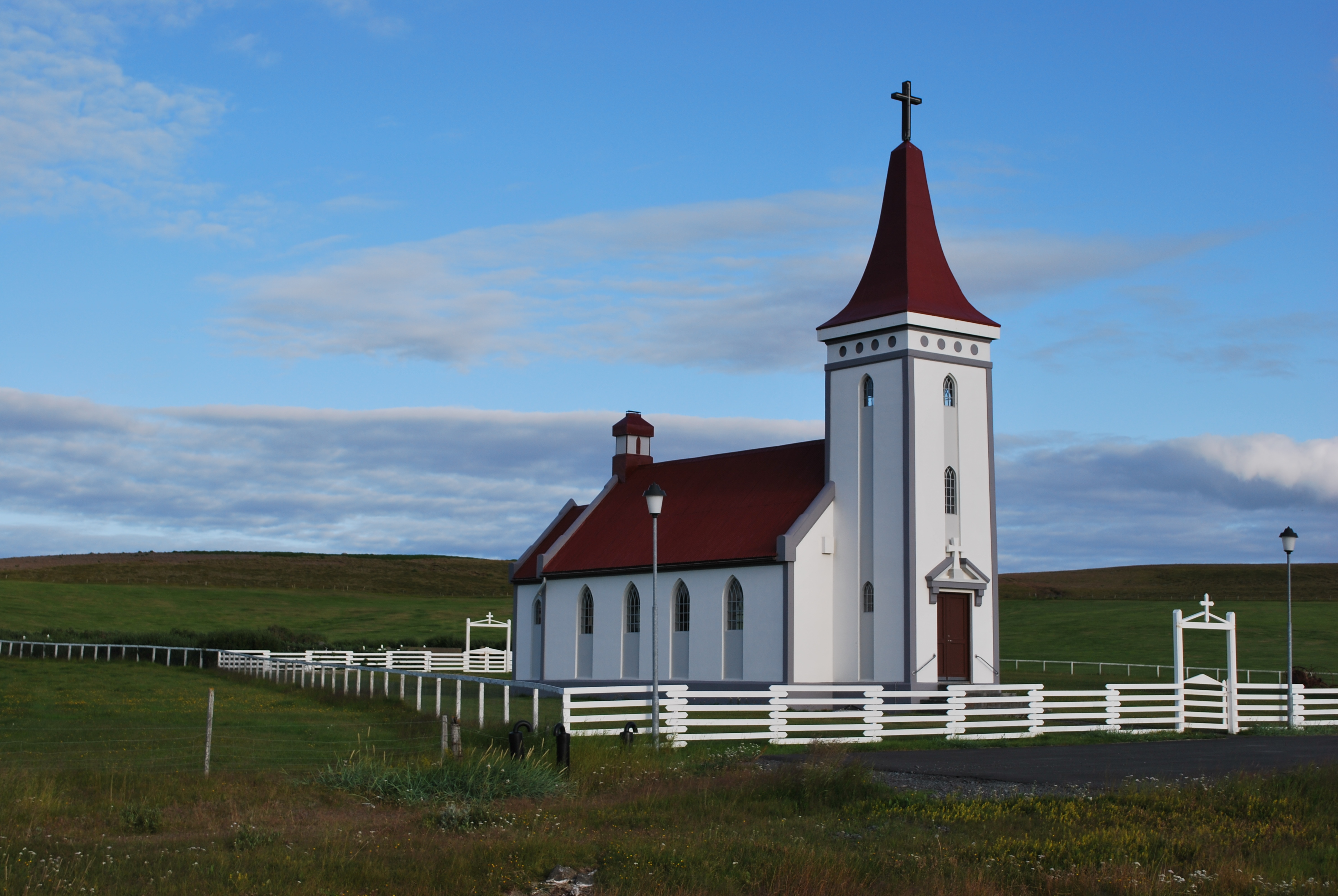 Kópasker village in northeast part of Iceland. Lutheran church